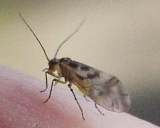 A barklouse (order Psocoptera) in a wood near Ratingen, Germany. (Length ca. 4mm)